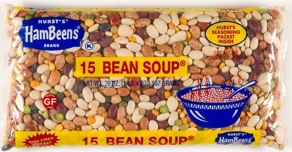 Package of HamBeens 15 Bean Soup